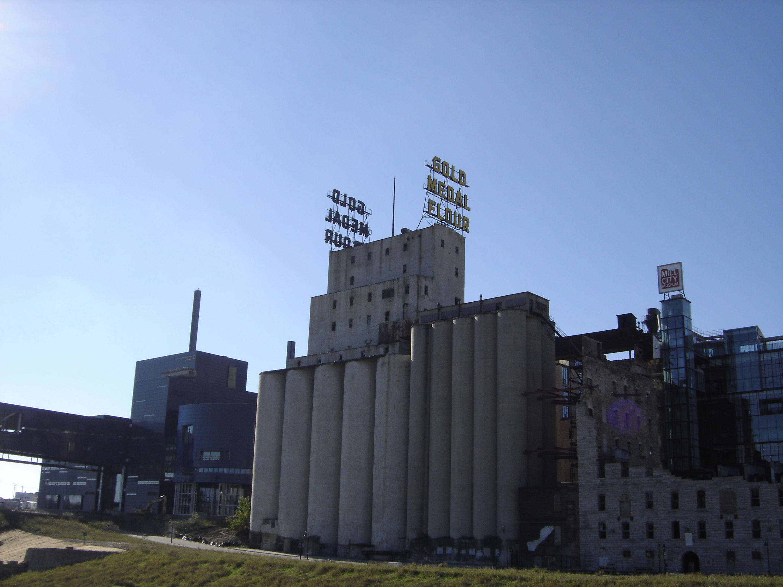 Gold Medal Flour factory on the banks of the Mississippi River. A General Mills brand. To the left is the new Guthrie Theater, and to the right is the recently completed Mill City Museum and loft complex.